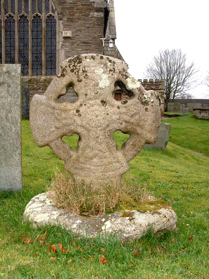 Columba's Cross in St Columb Major churchyard. This Old Celtic cross has been copied numerous times as a pattern from many War memorials in Cornwall